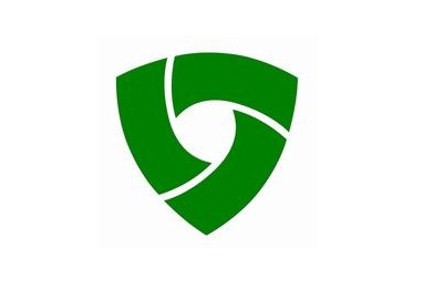 Flag of Niimi Okayama